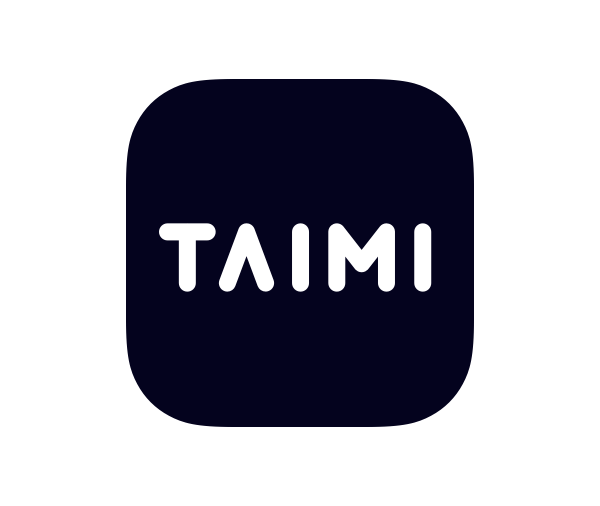 The black and white image represents a logo for the dating and social network Taimi